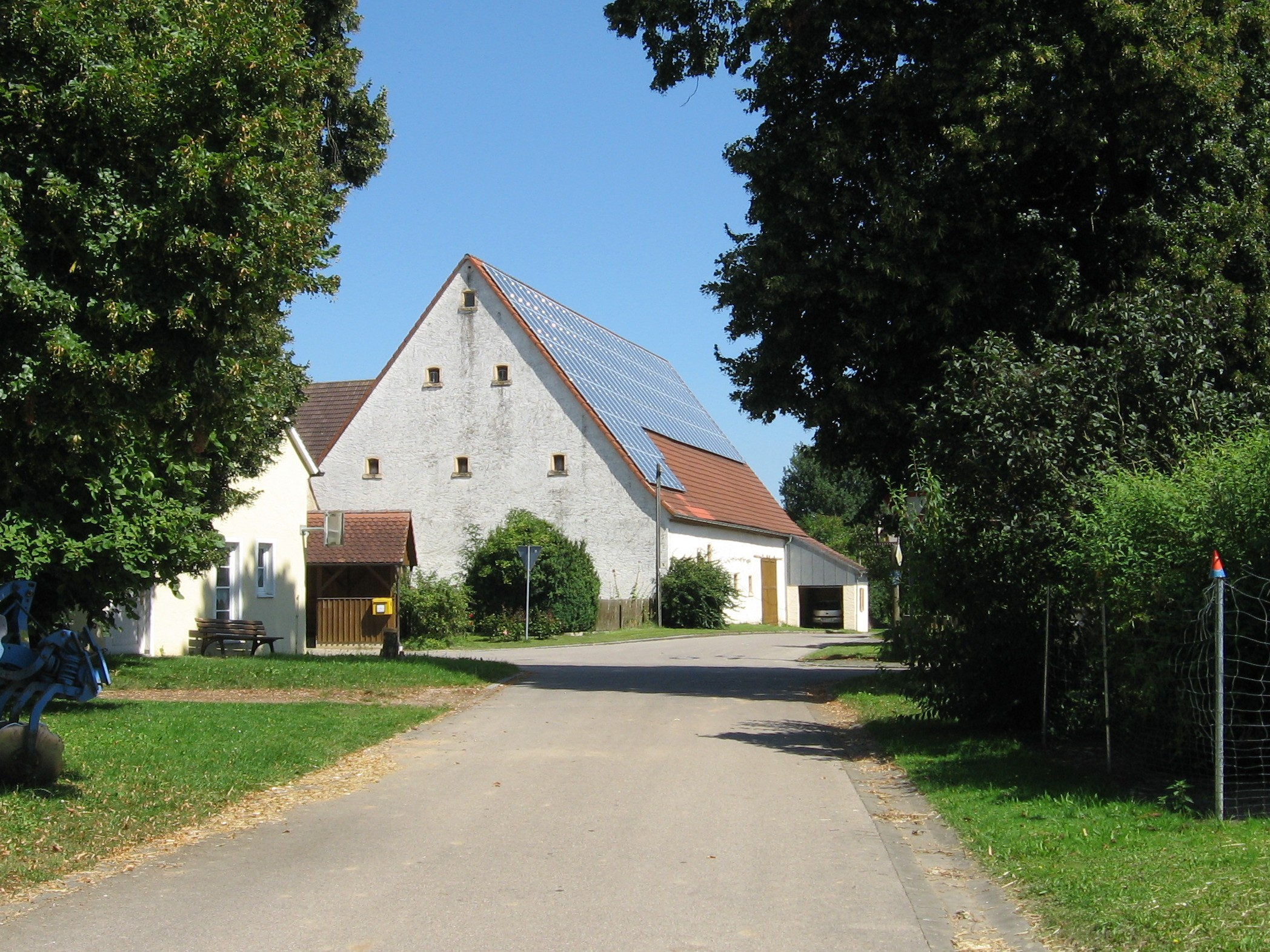 Ehlheim, part of Dittenheim, Bavaria, Germany, southwest